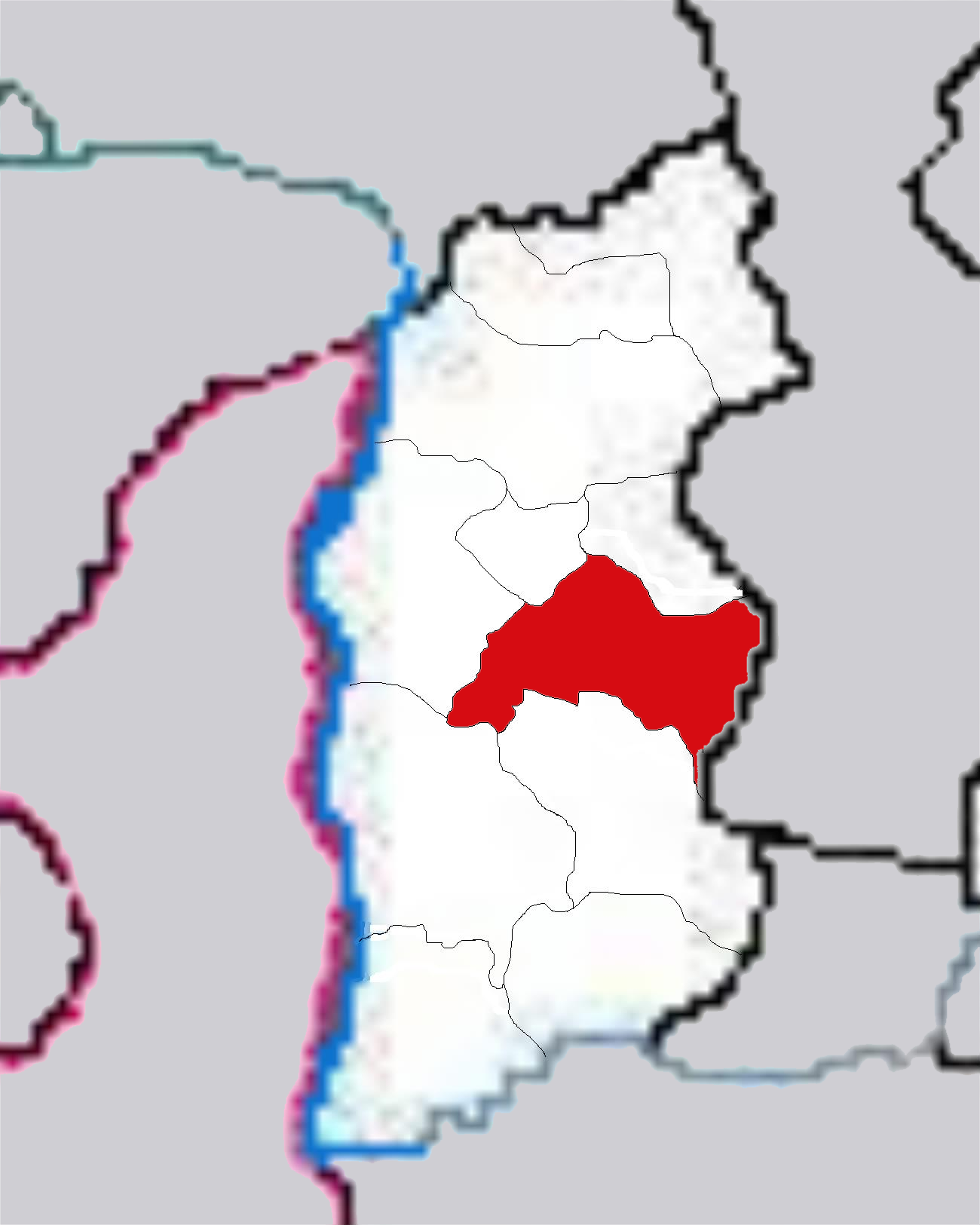 Maps of Shanxi Province of China